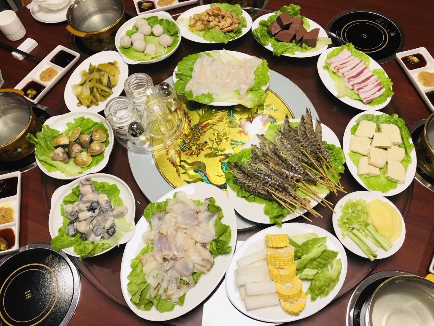 Seafood Hotpot at home